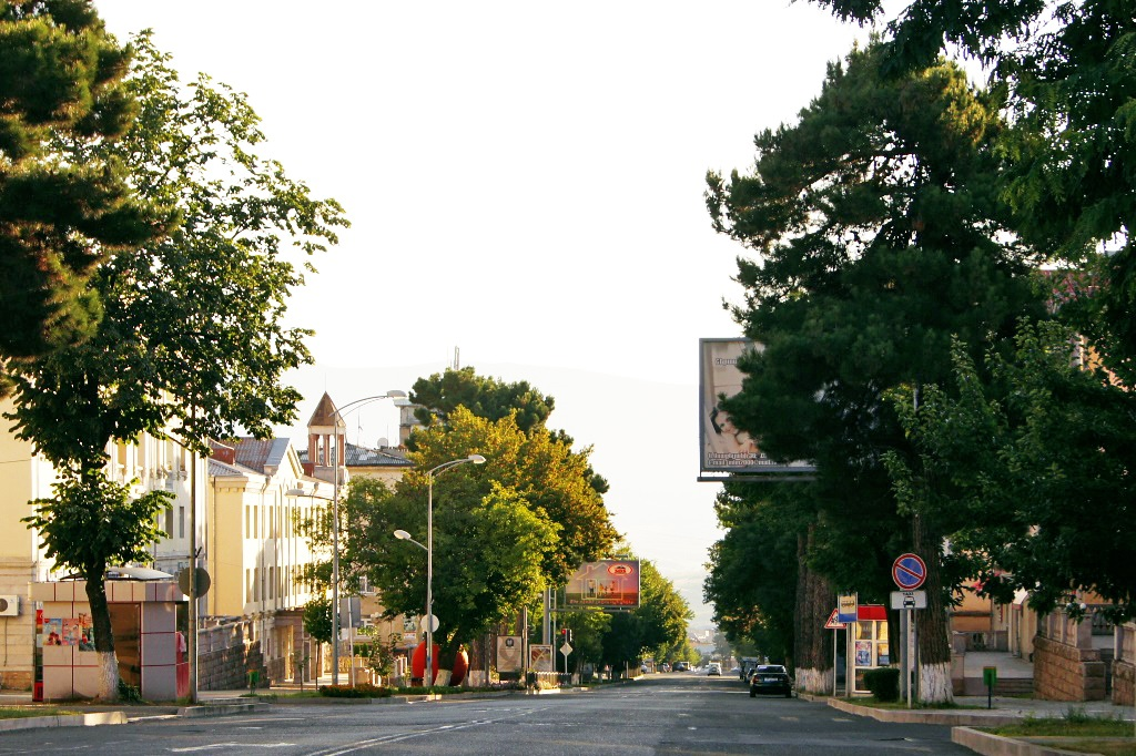 Azatamartikneri boulevard, Stepanakert